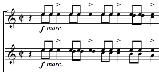 Symphony No. 2, composed by Sergei Rachmaninof in 1906-07. Movement 2.